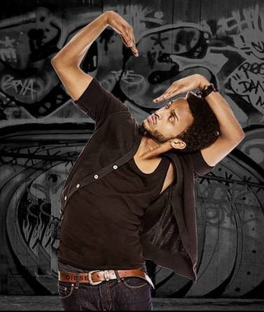 Tutting Pose copyright Osman Osman